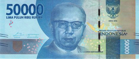 50000 rupiah bill, 2016 series, obverse